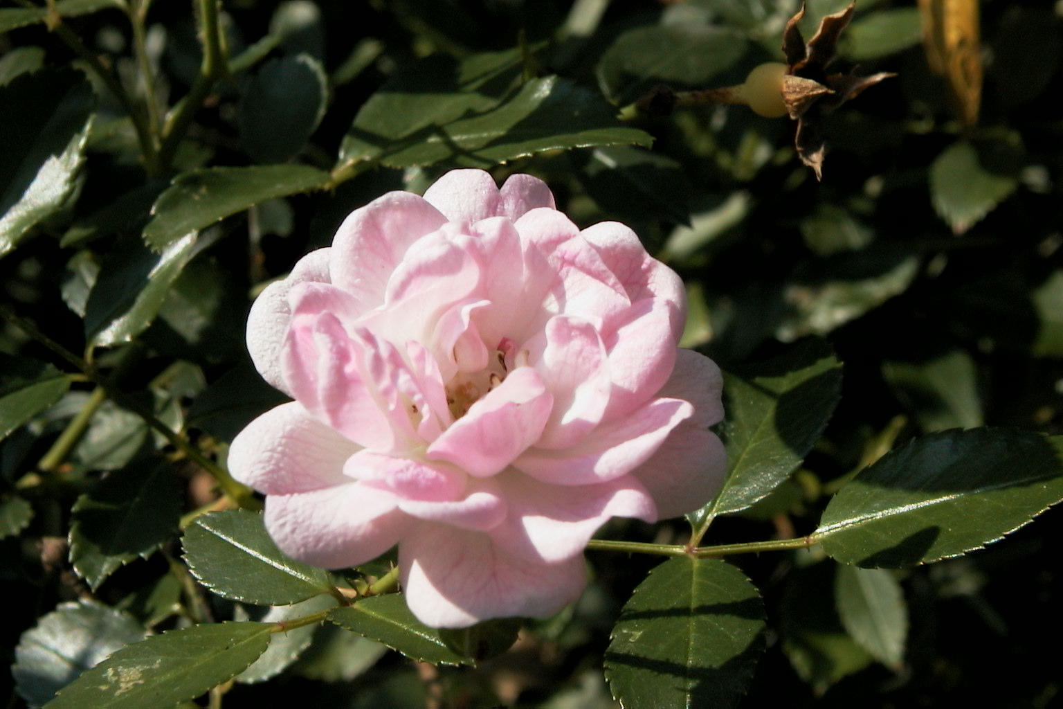 Rosa-Polyantha-Hybride 'The Fairy'